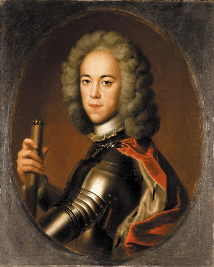 Portrait of Czarevich Alexei, son of Czar Peter I of Russia; oil on canvas; 32,7 x 26,4 in. / 83 x 67 cm.